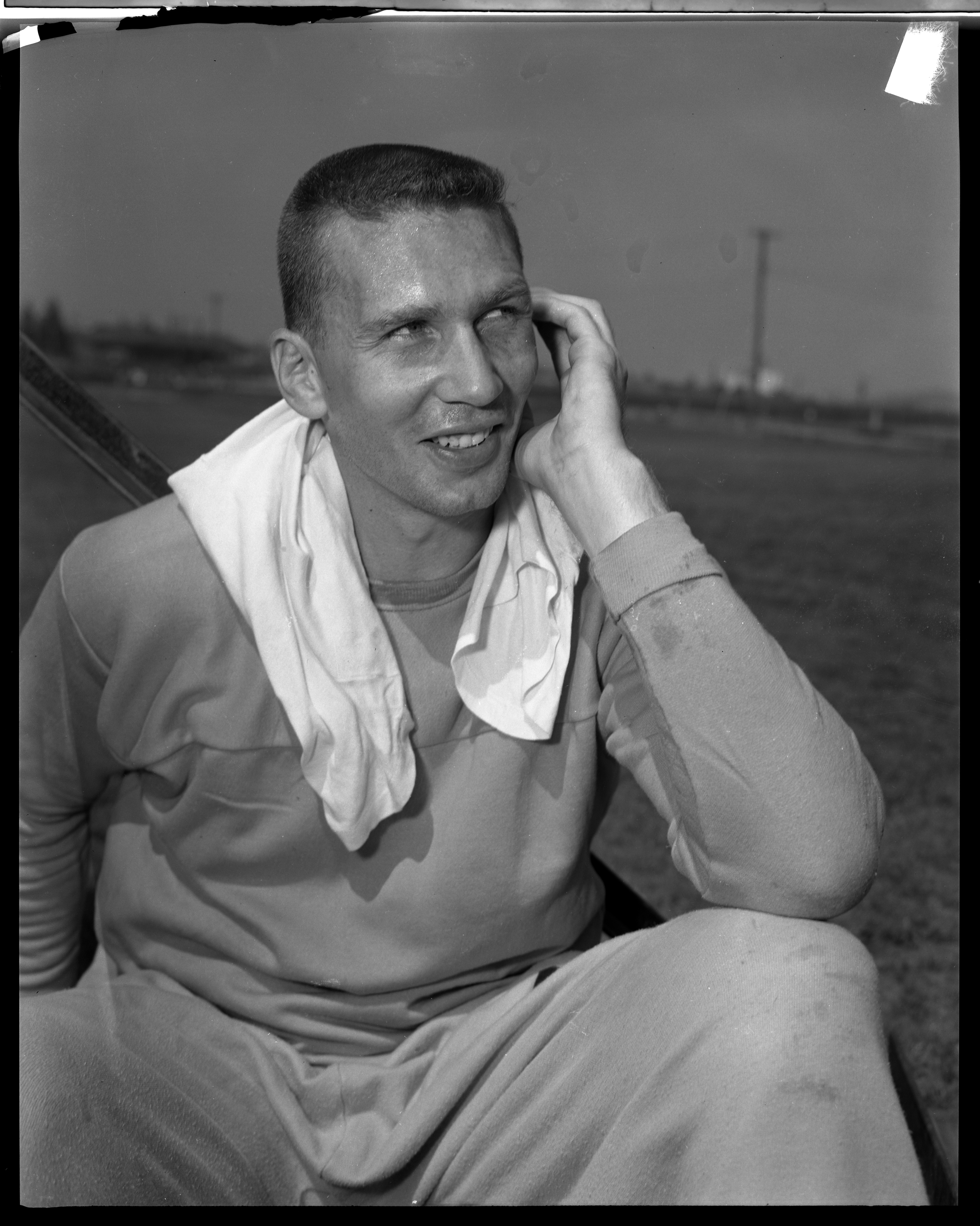 Paul Cameron BC Lions football player VPL Accession Number: 59735 Date: July 20, 1957 Photographer/Studio: Province Newspaper Cunningham, William Topic: Football players Portrait Person: Cameron, Paul Organization: B.C. Lions Football Club Location: British Columbia More information on our historical photograph collection